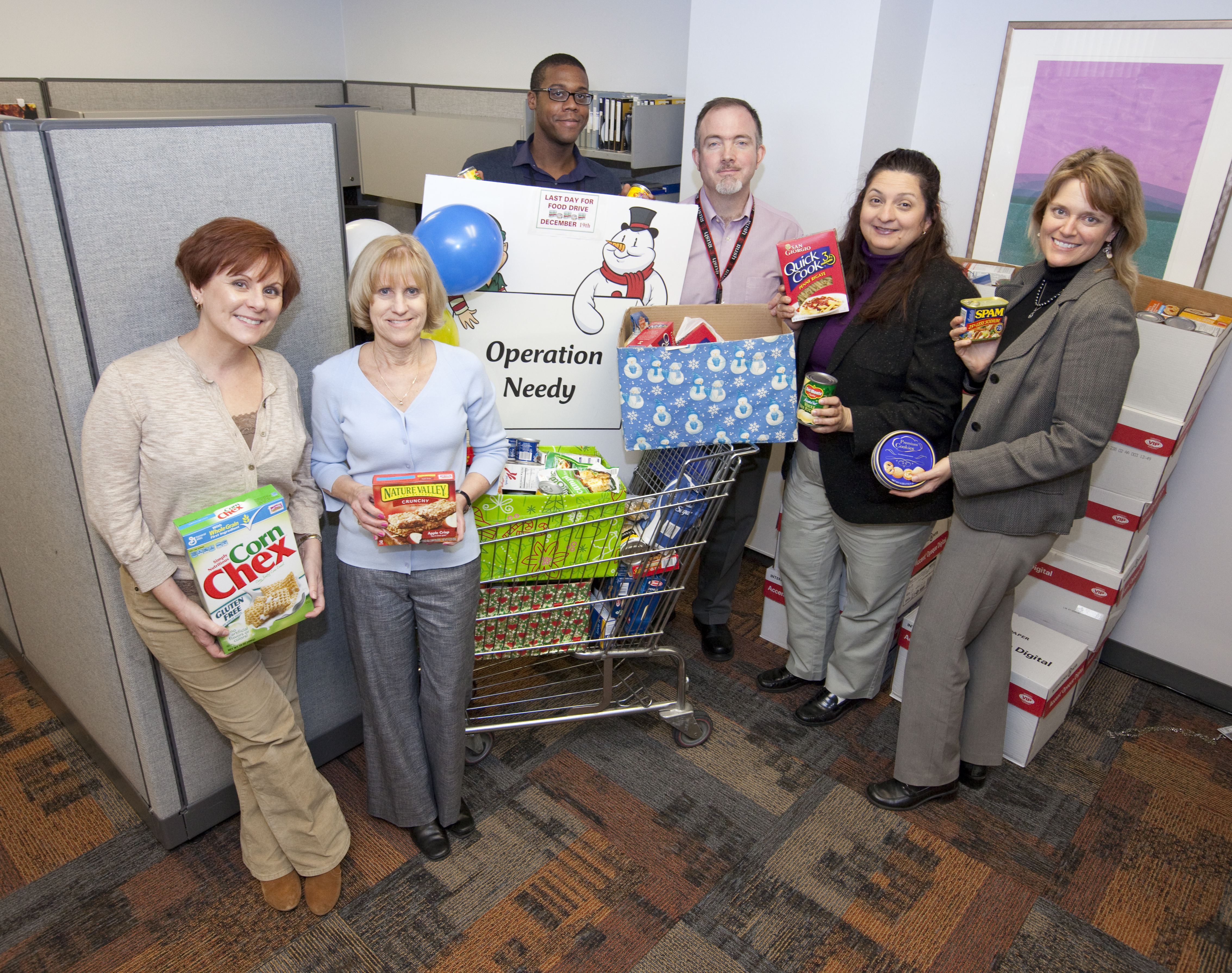 NRC employees stand with non-perishable food items collected during a holiday food drive, and donated to an organization that assists needy individuals and families in Montgomery County, Md. The Office of Public Affairs collected 45 boxes (72 cubic feet) of food